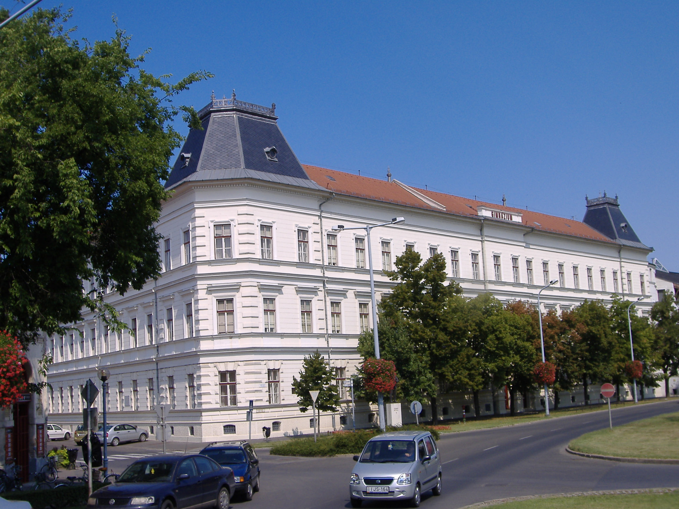 The Attila József Grammar School in Makó, Hungary.